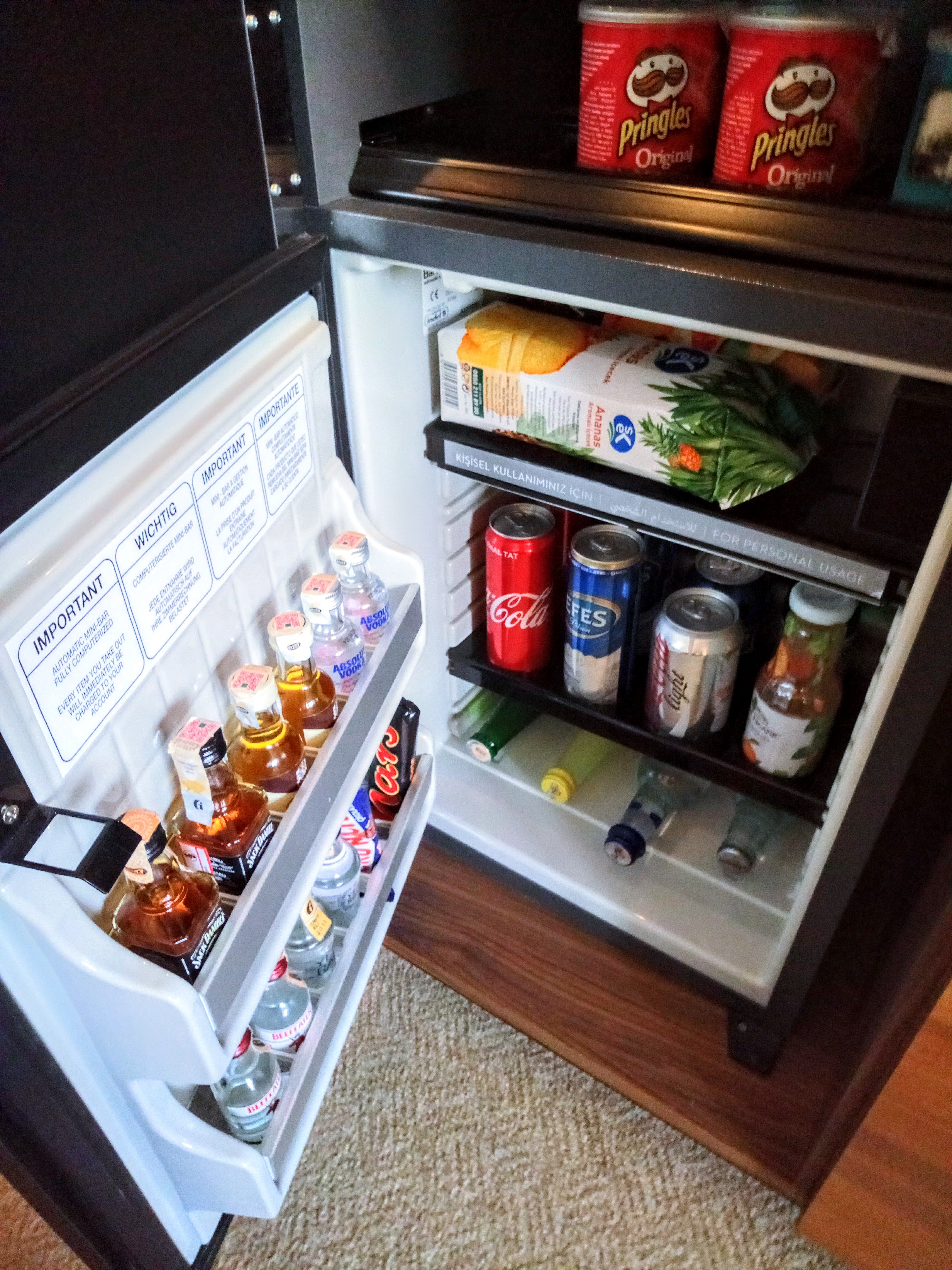 A mini-bar in a Grand Hyatt hotel, filled with beverages